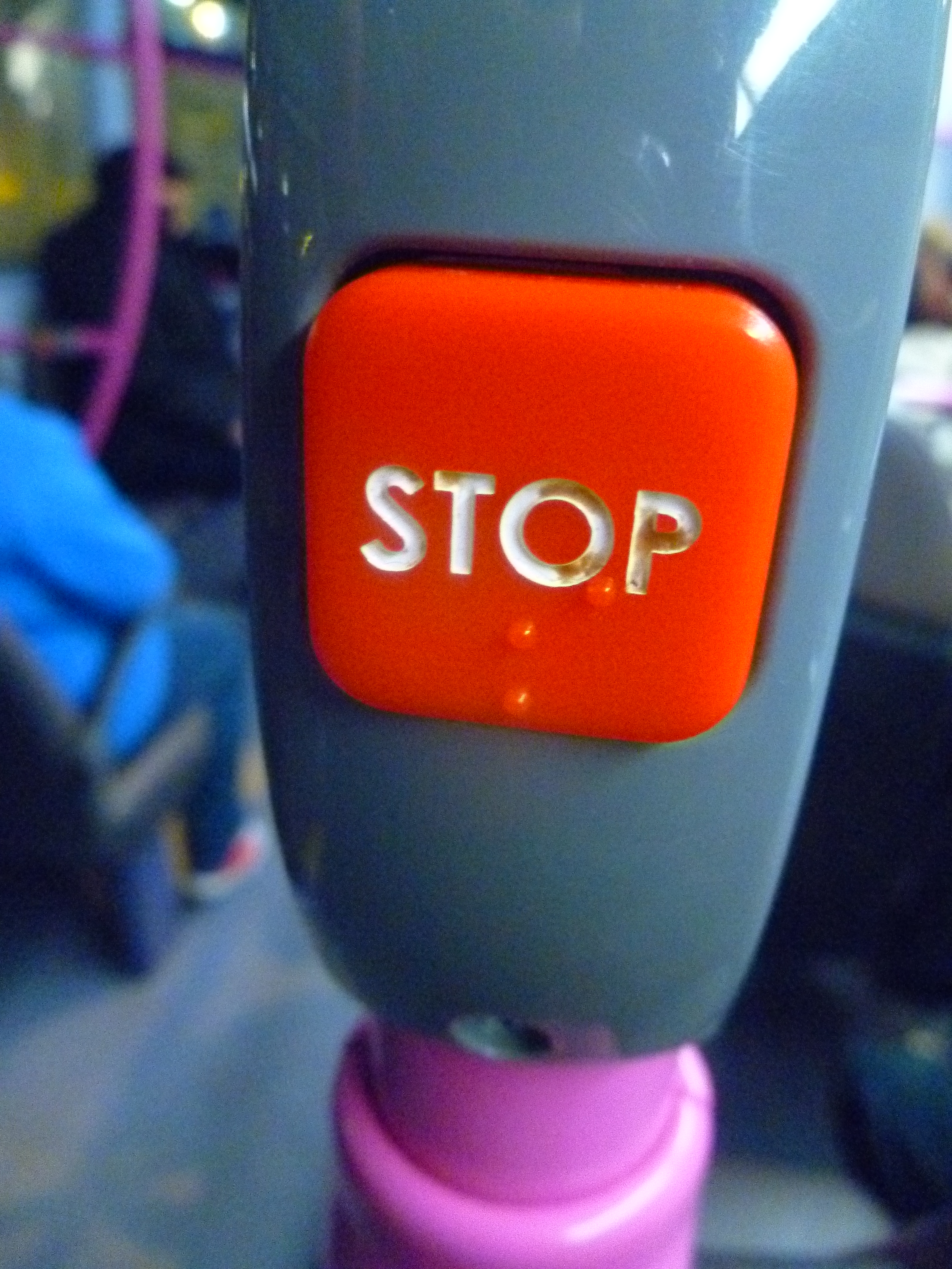 A stop button on a First bus in Manchester